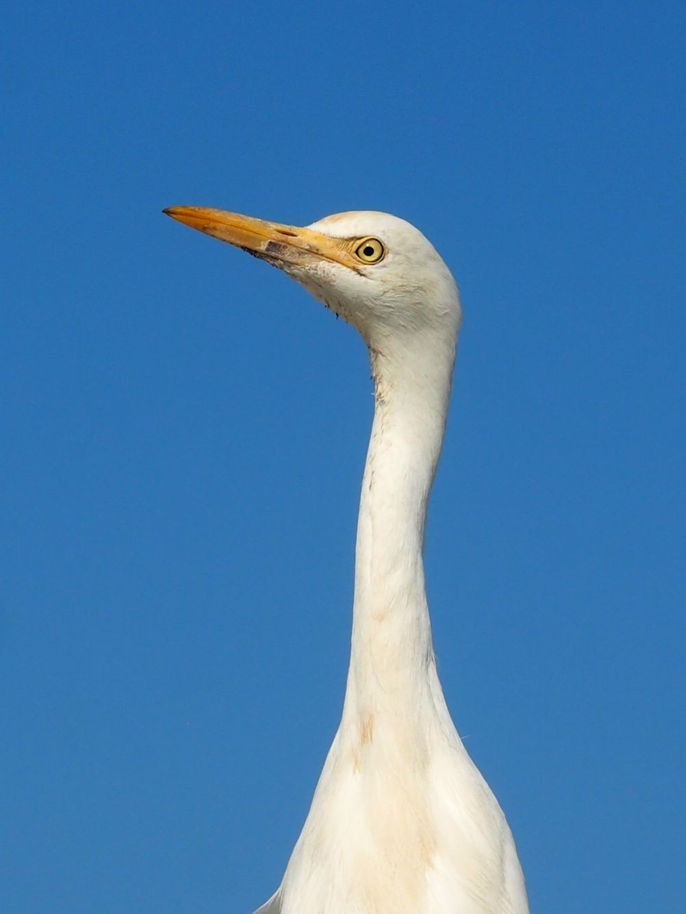 White Egret